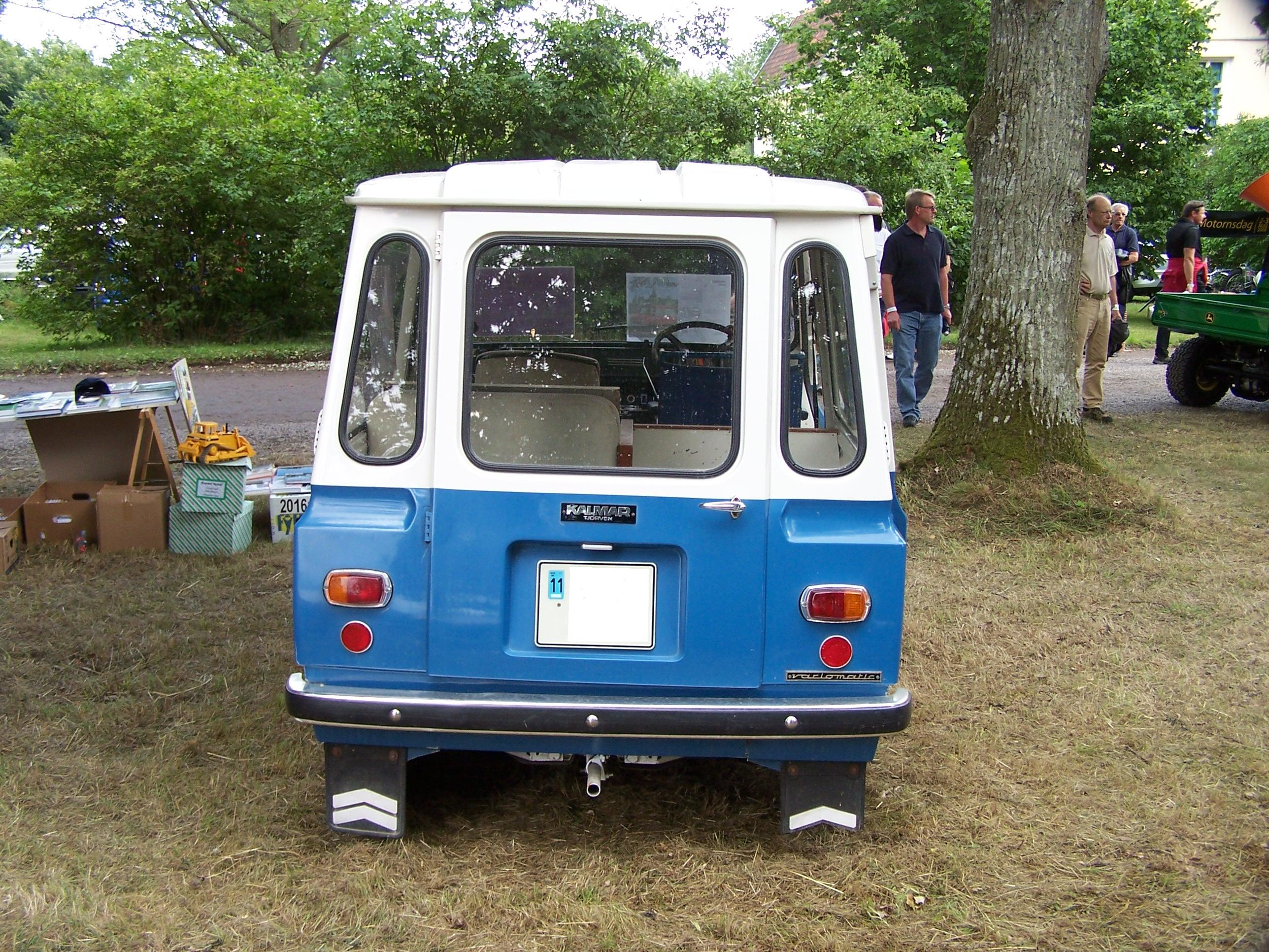 Kalmar Verkstads AB (KVAB) Tjorven, equipped for handicapped people. Picture taken at Calmar Classic Motor Show 2008.